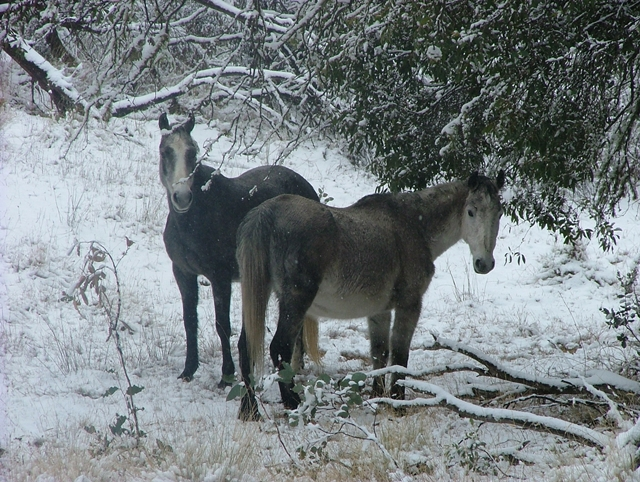 Wild Brumbies at Snowy Wilderness retreat in Jindabyne NSW Australia.